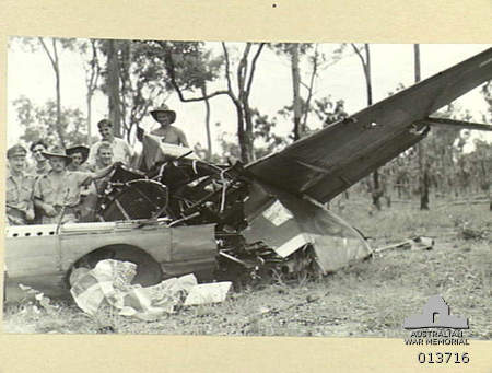 On 23/11/42 during the night S/L Cresswell (RAAF) in Kittyhawk A29-113 intercepted three Bettys over Darwin, downing T359, serial 5414 - depicted here - of the Tokao Ku over Koolpinyah, NT. The Betty fell onto the Herbert Station narrowly missing the Homestead